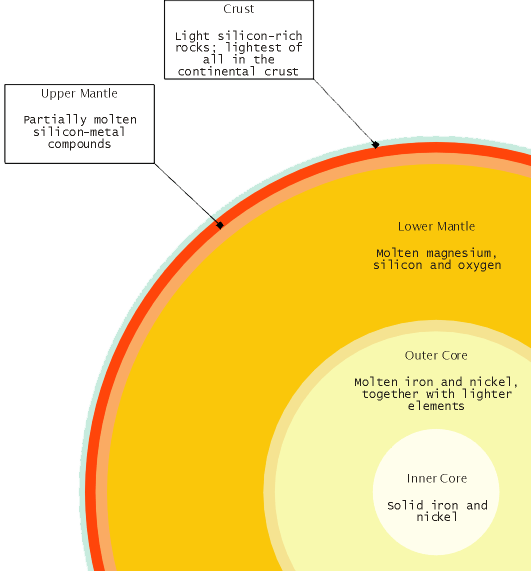 Geology - structure of the Earth I am the author of this image and I hereby place it into the public domain - Thparkth 01:09, 19 May 2004 (UTC)